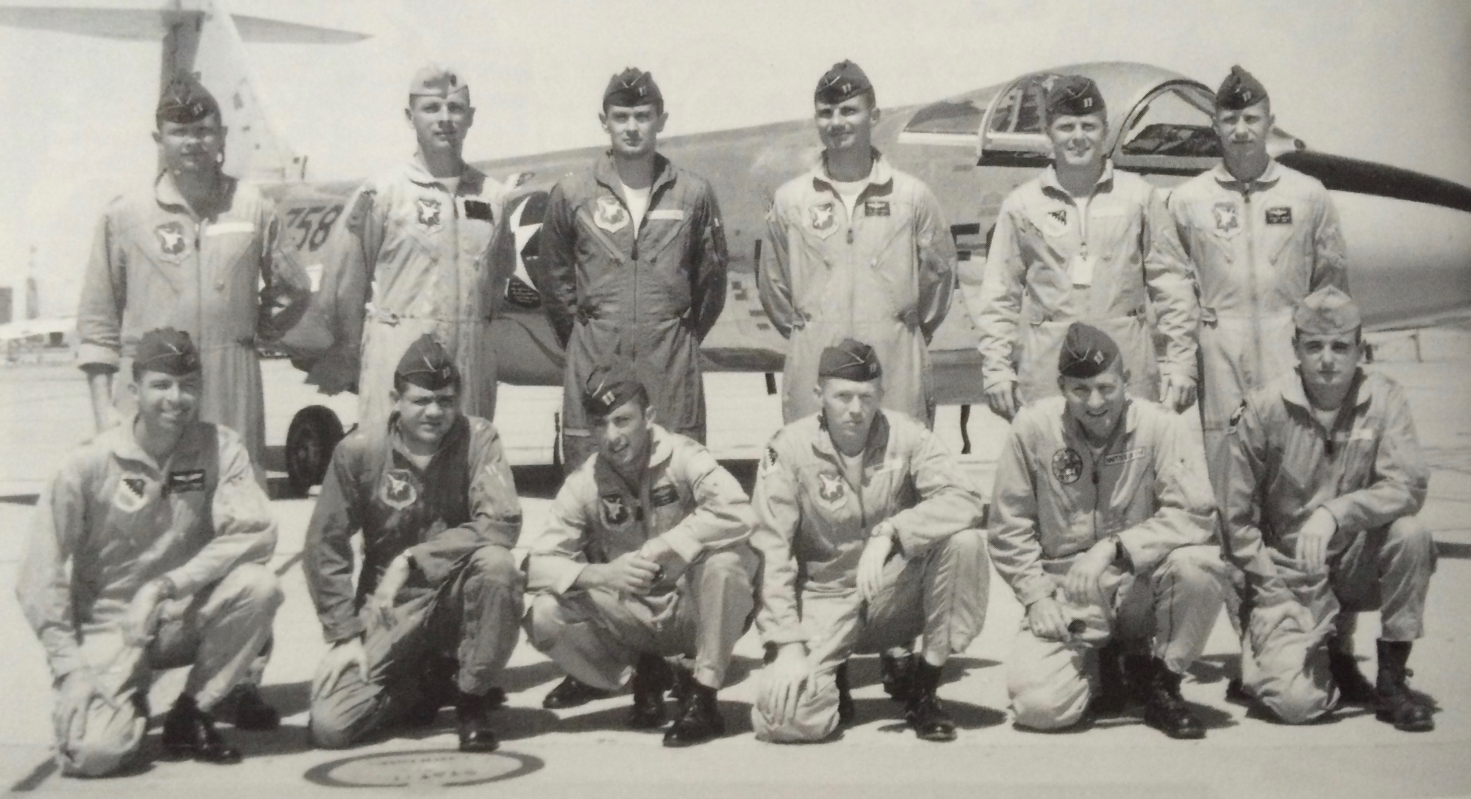 Class photograph of United States Air Force Test Pilot School Class 64C. (Below, Front) Stroup, Floyd B. (Capt); Hull, Wendell R (Capt); Larson, Gerald D (Capt); Roosa, Stuart A (Capt); Hartsfield, Henry W Jr (Capt); Moore, Gary L (Lt, USN); (Back) Fredricks, Baron III (Capt); Wuertz, Joseph B (Capt, USMC); Duke, Charles M Jr (Capt); Armstrong, Spence M (Capt); Hoag, Peter C (Capt); Worden, Alfred M (Capt, ETPS); (Not Shown) Starc, Roberto (Capt, Argentina)